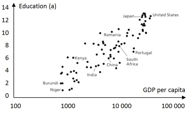 Average years of schooling versus GDP per capita (USD 2005). Logarithmic scale on horizontal axis. Data according to Weil, D. (2009) Economic Growth. Pearson Addison-Wesley.